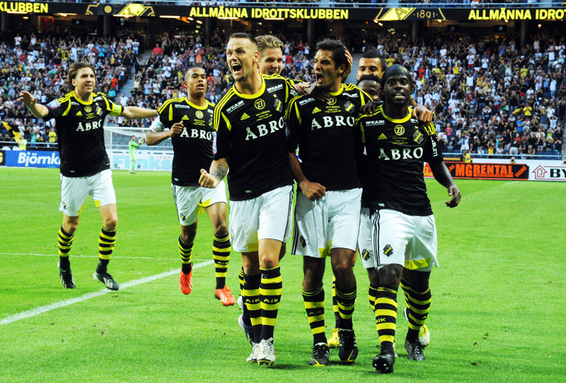 Celso Borges scored